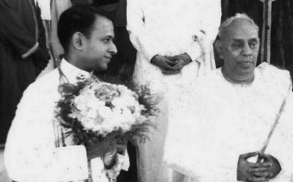 This is the photograph of Maharajah of Travancore & Maharajah of Cochin taken in 1949 during the formation of Thiru-kochi state.